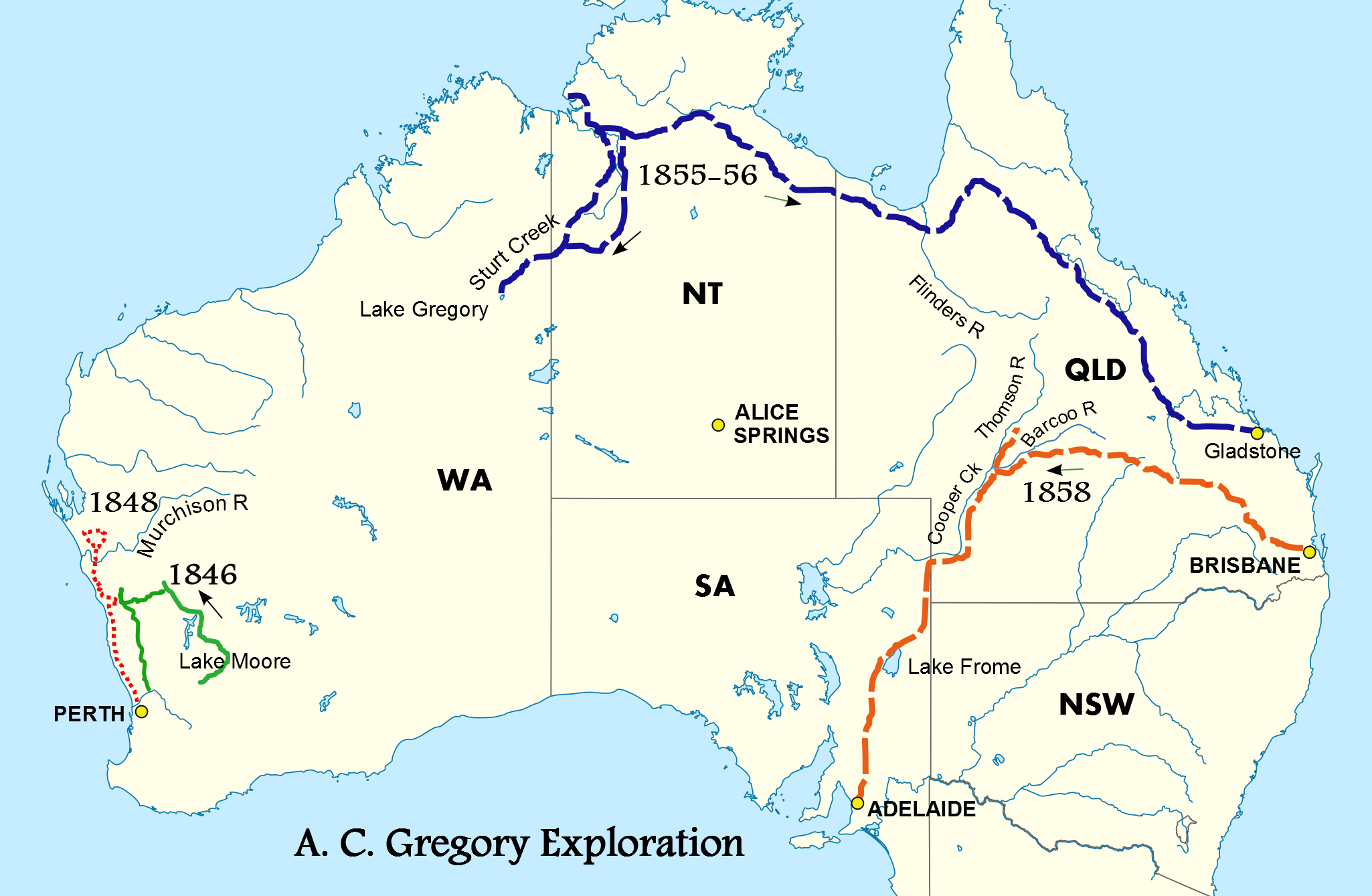 Map of exploration routes of Augustus Charles Gregory. Adapted from Australian Geographic map 1995, base map by User:NordNordWest